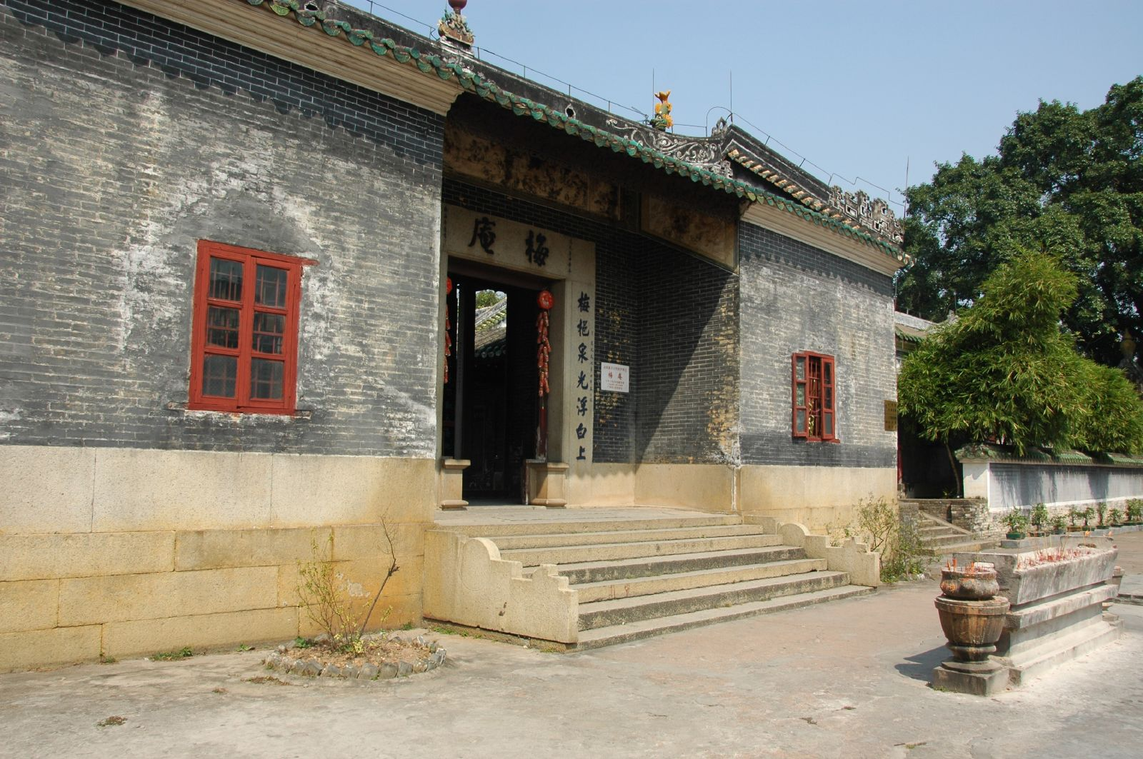 Mei'an temple in Zhaoqing